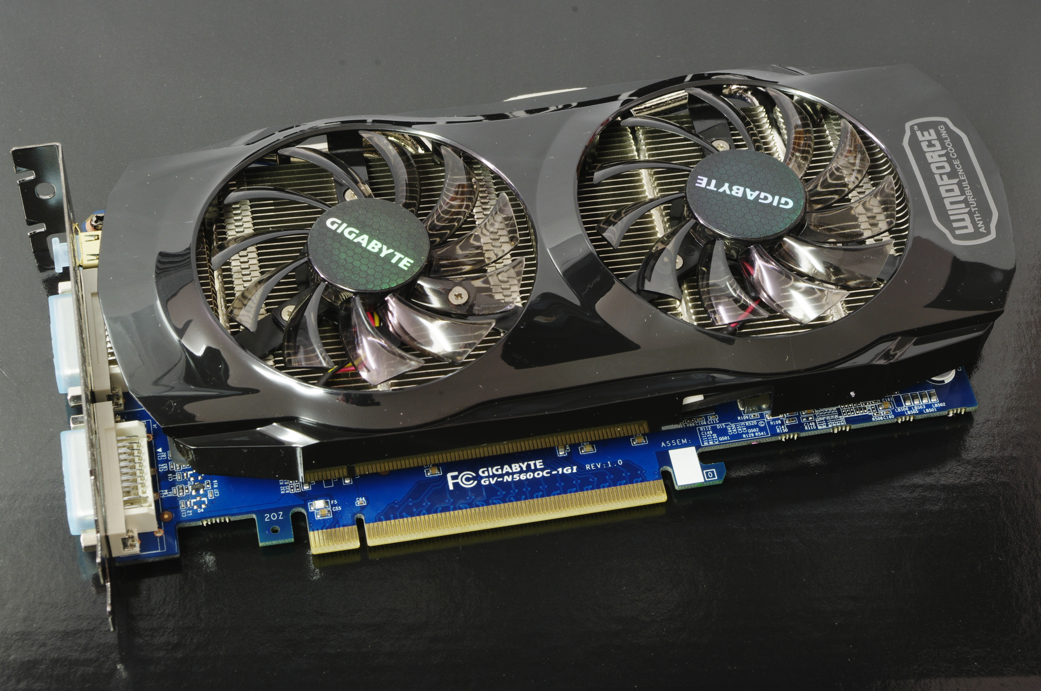 Graphics board gv-n560oc-1gi